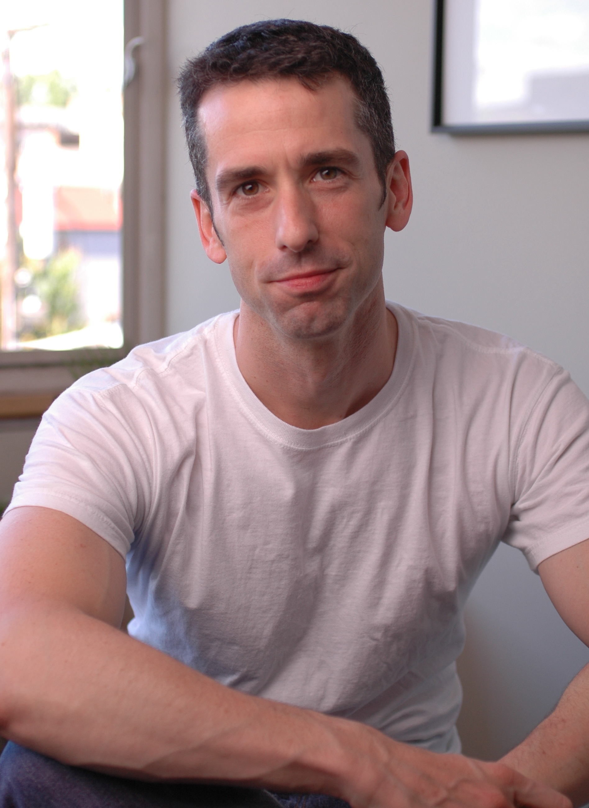 Sex advice columnist, journalist, and newspaper editor Dan Savage.